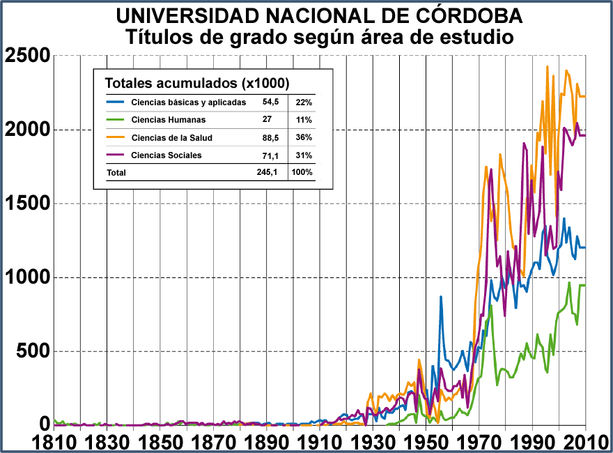 Degree courses issued by the National University of Cordoba between 1810 and 2010. Cordoba, Argentina.